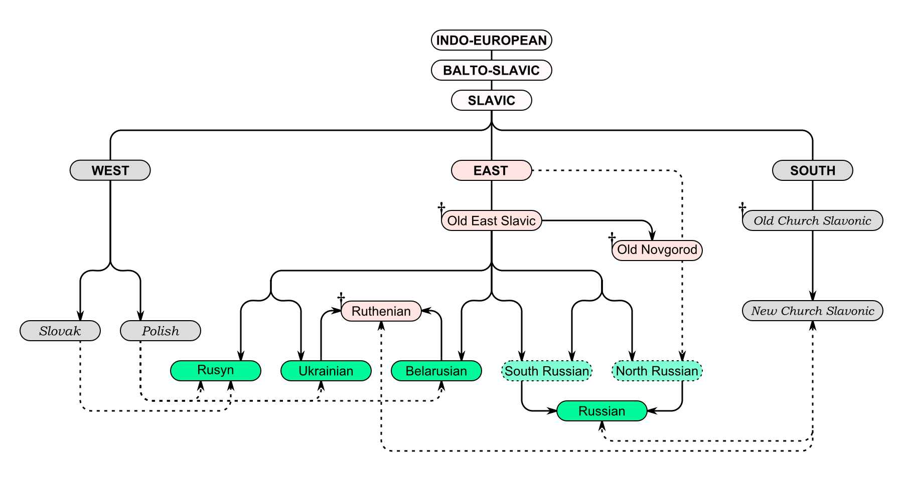 East Slavic Languages Tree (in English)